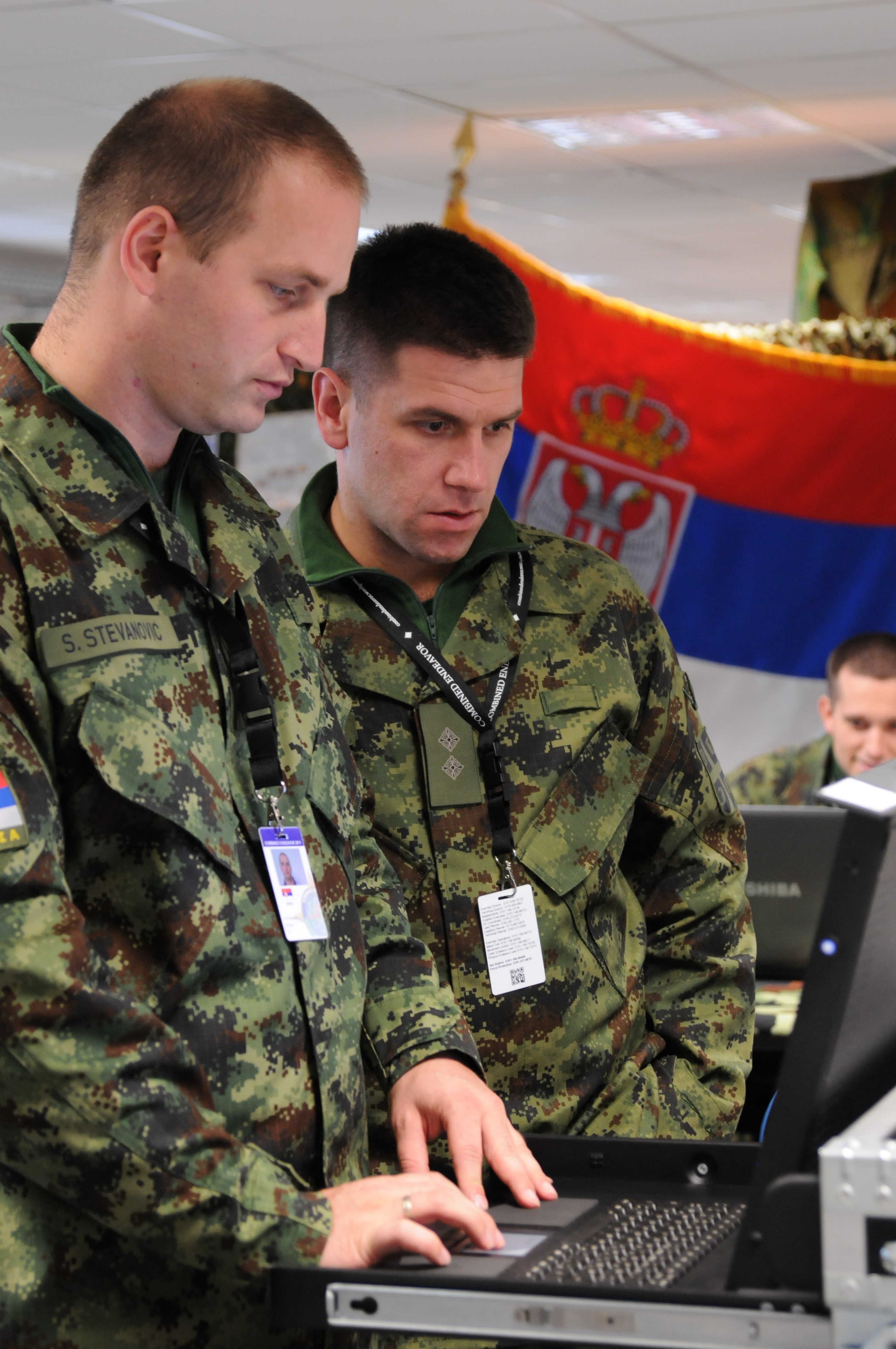 Serbian land forces command 1st Lts. Srdjan Stivomvic, left, and Nikola Jacimovic ensure computer connectivity with the joint operation network servers in support of exercise Combined Endeavor 2011 in Grafenwohr, Germany, Sept. 9, 2011. Combined Endeavor is a U.S. European Command (EUCOM)-sponsored, multinational initiative intended to encourage interoperability and information exchange among nations via communications networks and subsequent collaborative links with the United States with common stability, security and sustainment goals and objectives. (U.S. Army photo by Staff Sgt. Shawon Lott/Released)